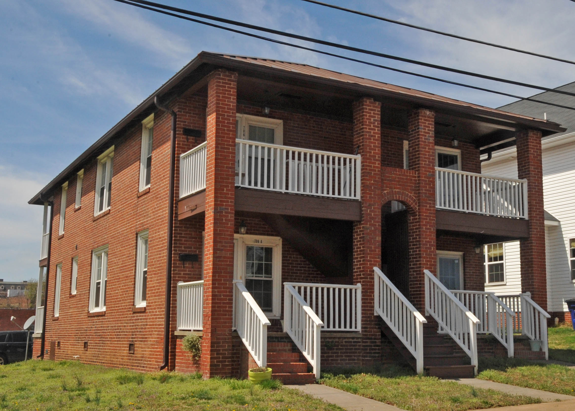 BUILT IN 1942 IN A PREDOMINATLY MIDDLE CLASS AFRICAN AMERICAN NEIGHBORHOOD